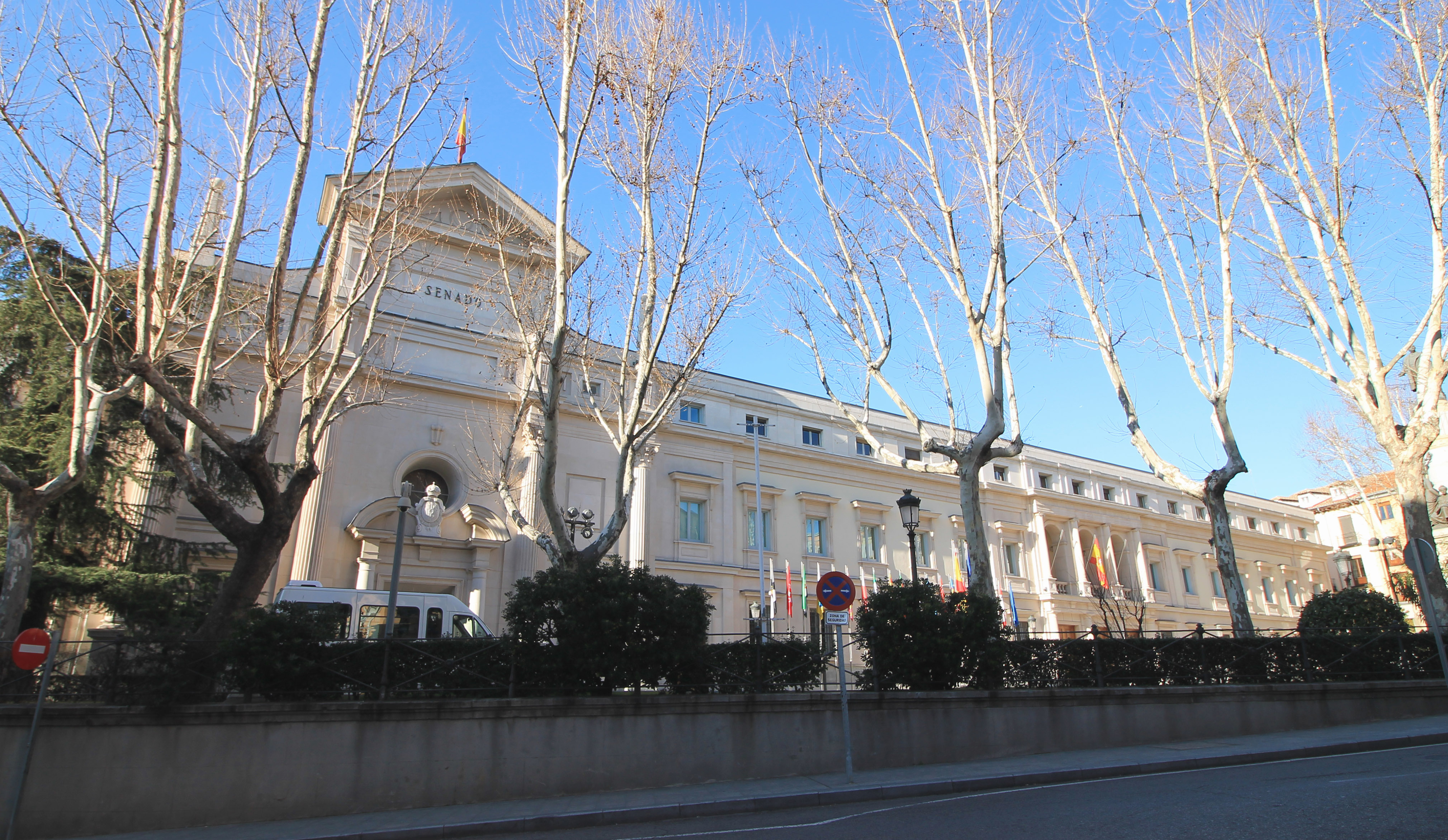 Façade of the Senate of Spain (old building) in Madrid.